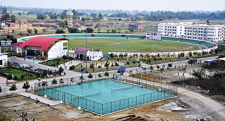 Stadium View